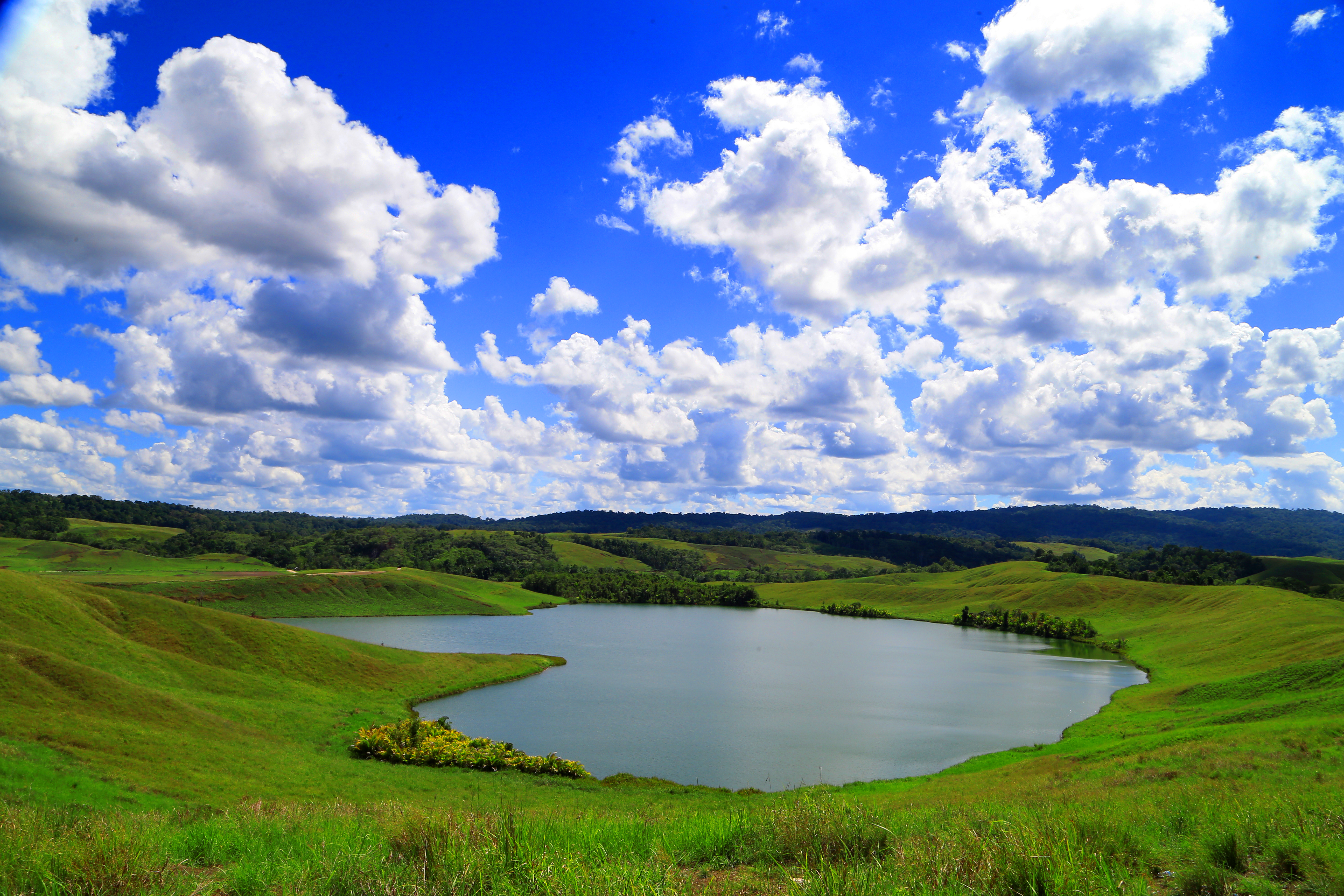 Lake Love (Lake Emfote) is a heart-shaped-lake located in Emfote,Yoka,near Lake of Sentani , Jayapura, Papua, Indonesia. It was found not very long ago. It is an oasis in the middle of savanna. It takes approximately one hour to drive from Sentani, and about two hours from capital city of Jayapura.